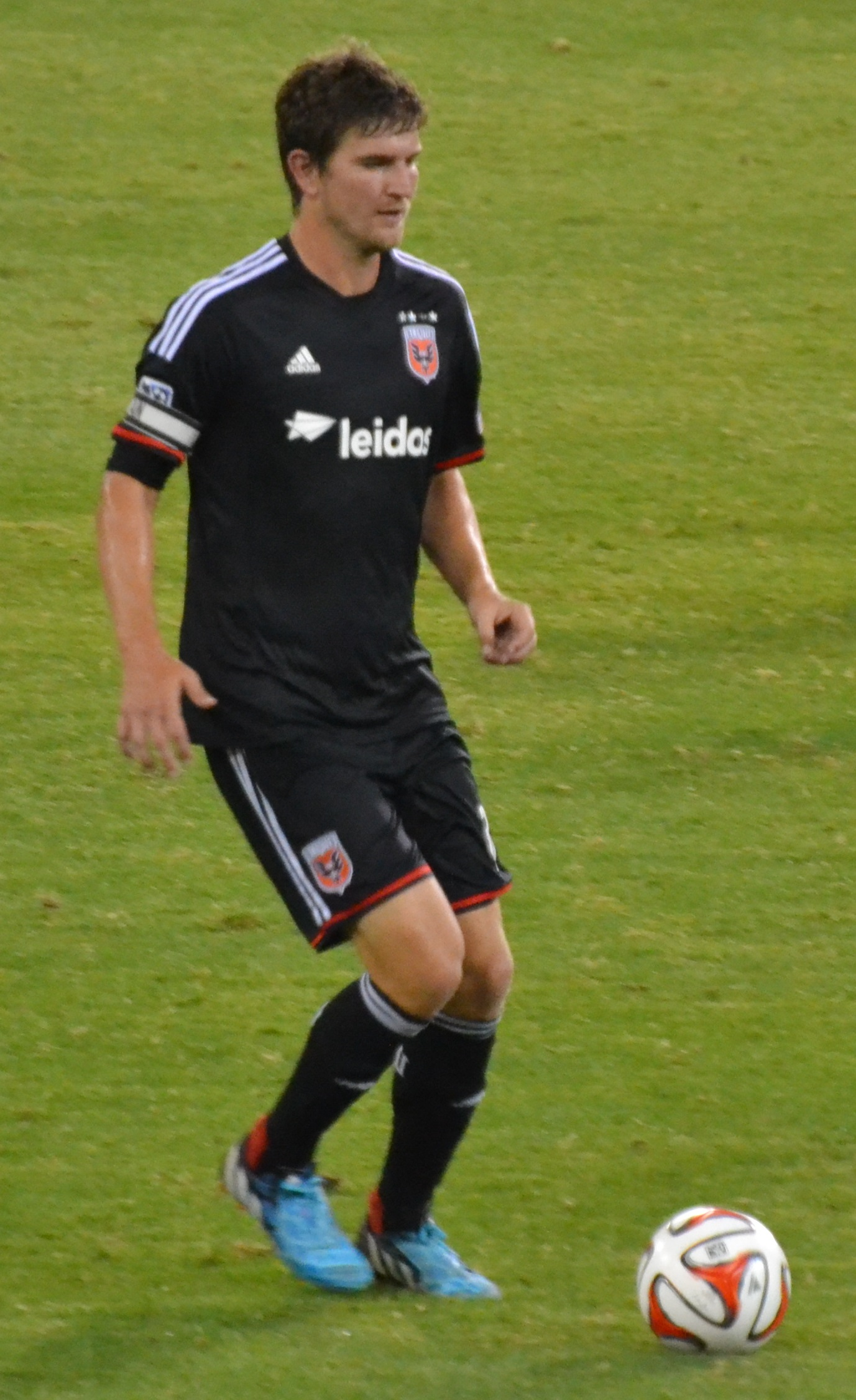 Bobby Boswell DC United captain